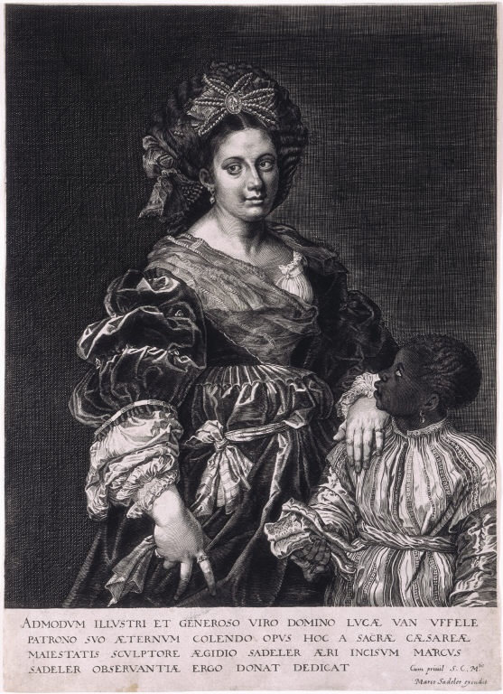 Laura de Dianti with a Black Page